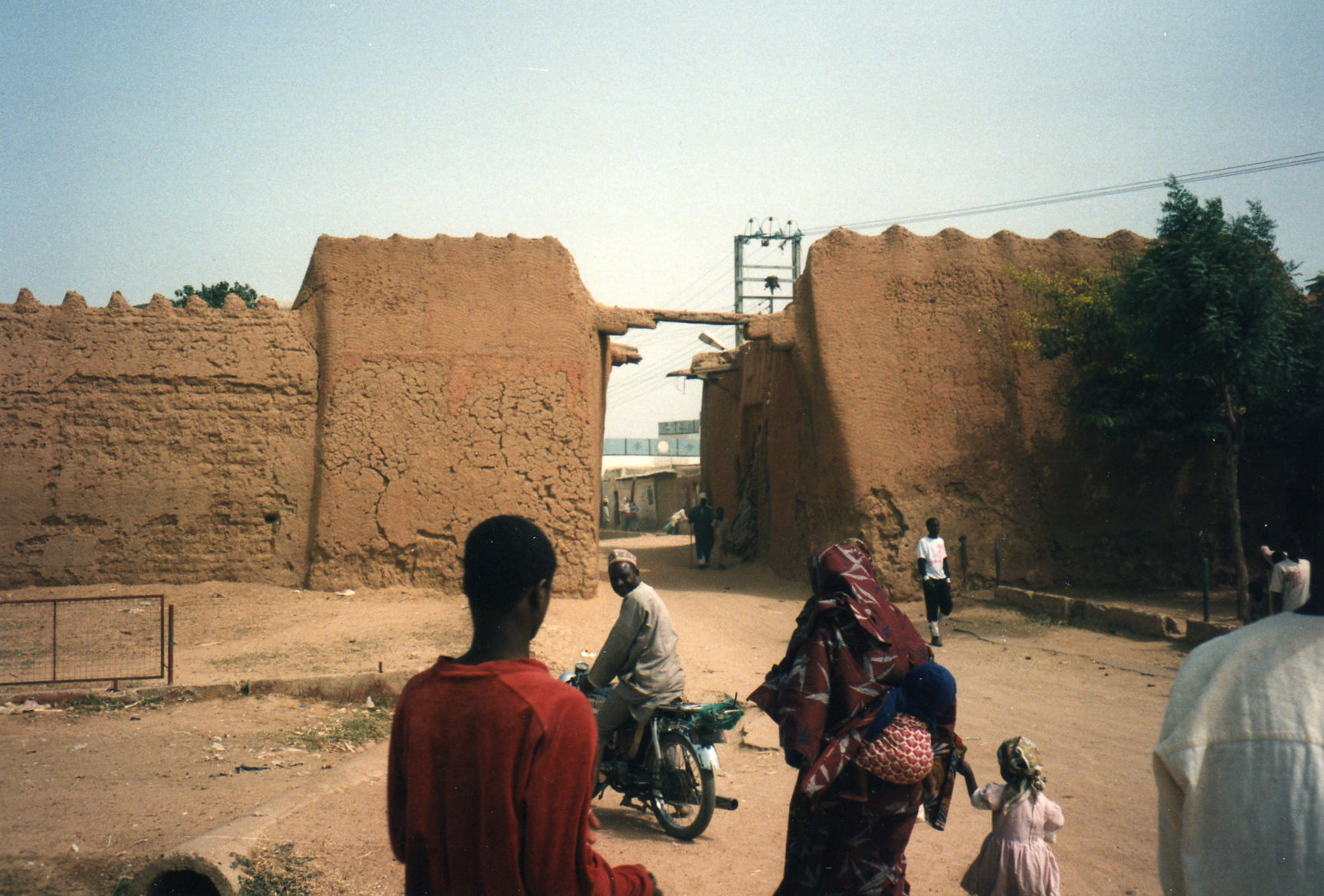 Kano City Mud wall, Nigeria Nov 1995